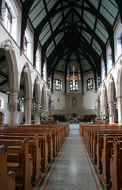 More properly called the Cathedral of our Lady of Good Aid, this is the seat of the Roman Catholic Diocese of Motherwell. Originally an ordinary church, the striking red sandstone building was designed by Peter Paul Pugin and opened on 9 December 1900. It was renovated and adapted for use as a cathedral in 1948 by Jack Antonio Coia, and is a Category B Listed building.